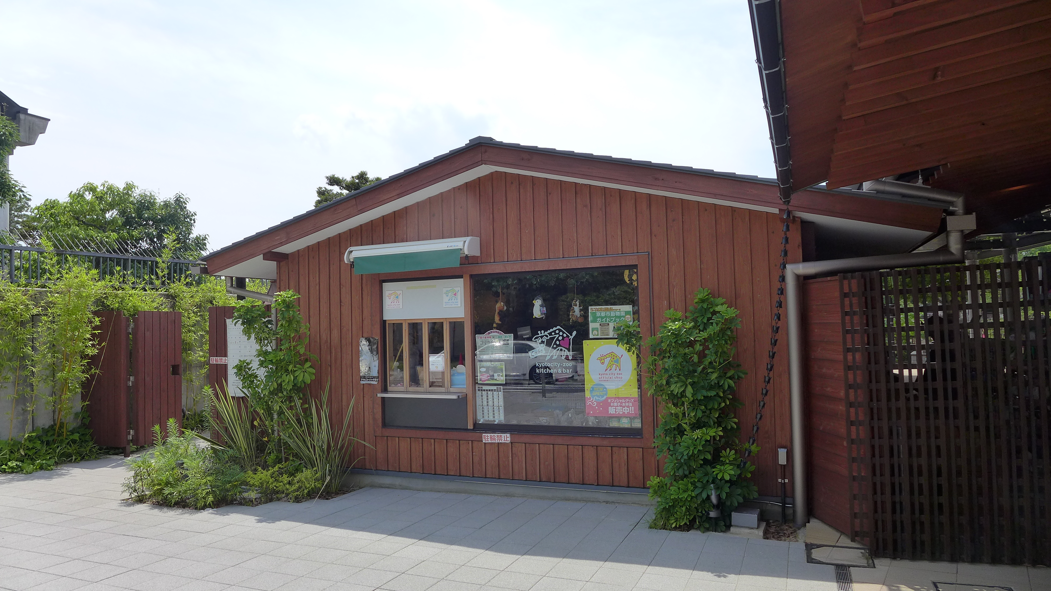 Existed in East entrance of Kyoto City Zoo, Kyoto, Japan.